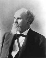 James Kimbrough Jones, US Senator and Representative from Arkansas